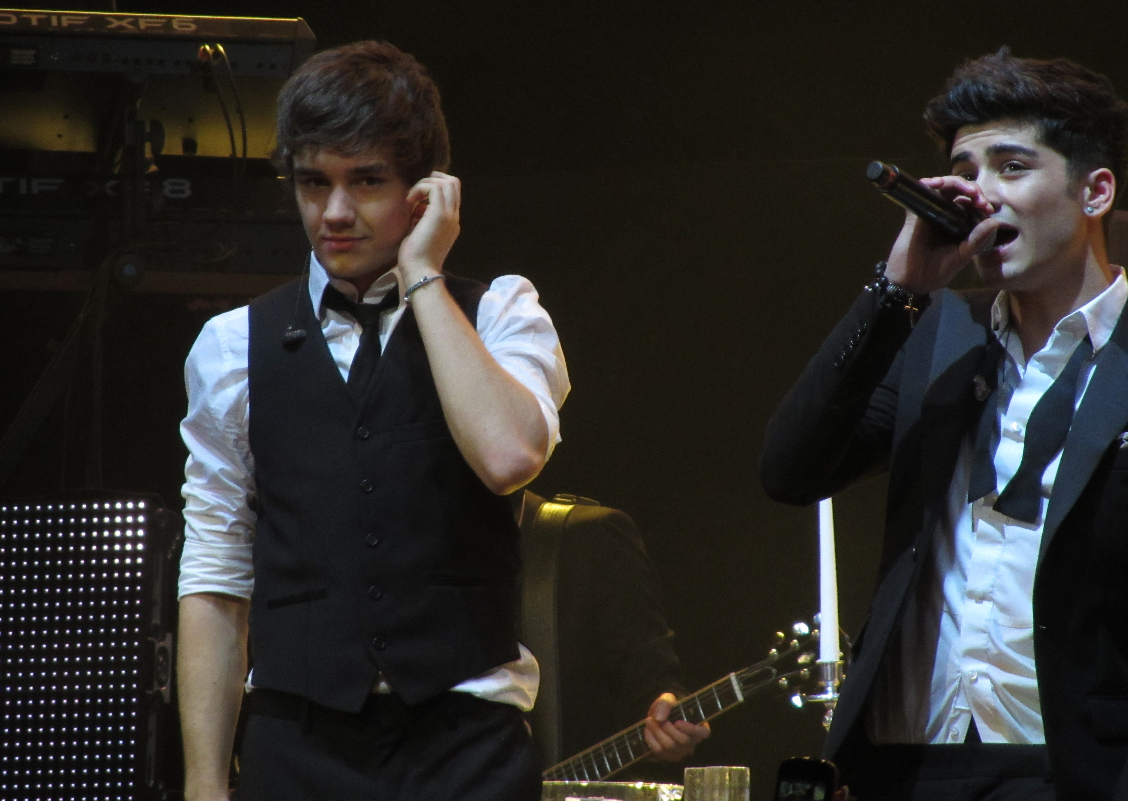 Liam Payne and Zayn Malik, One Direction, Clyde Auditorium, Glasgow, Saturday 14 January 2012